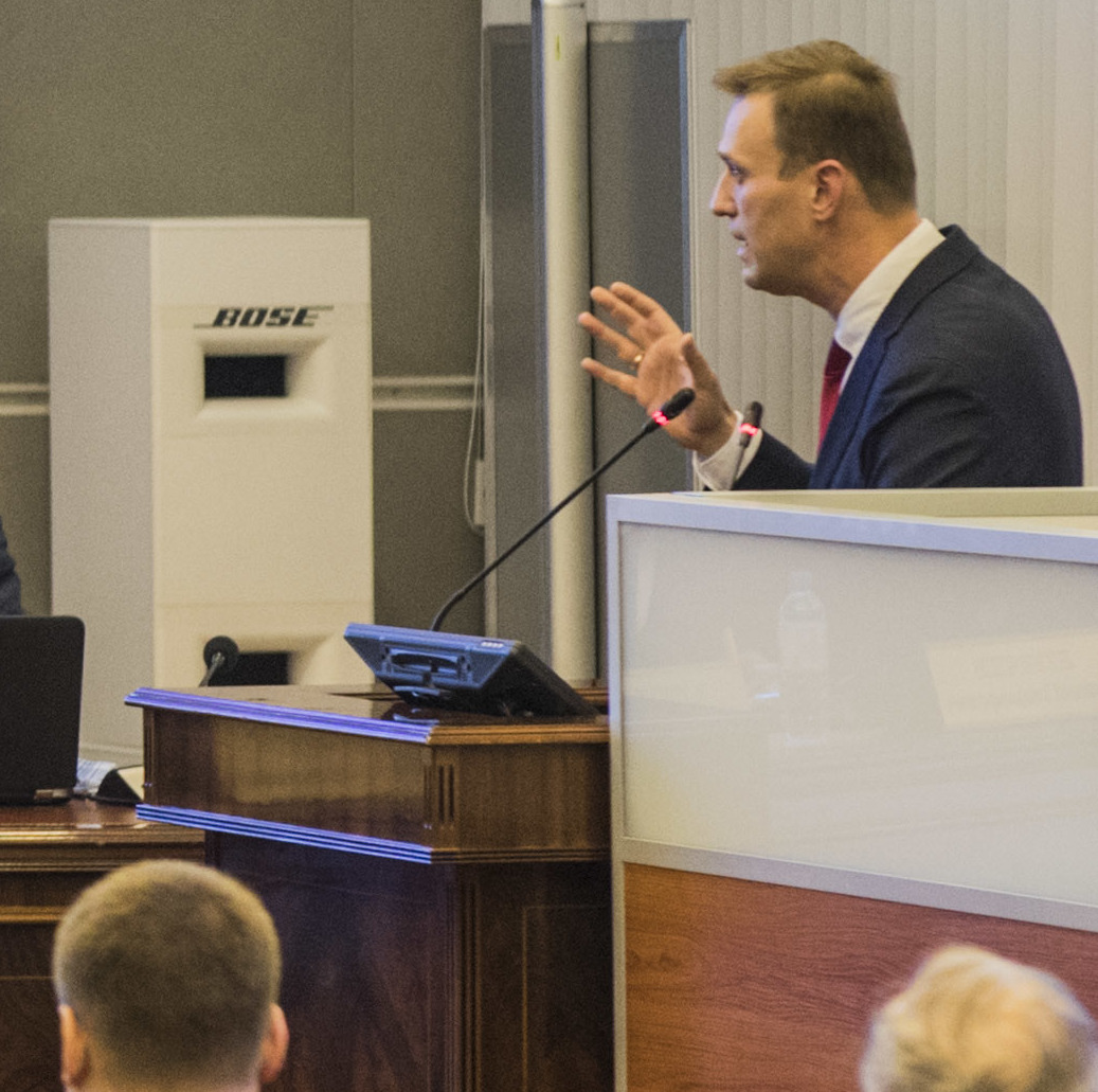 Alexei Navalny, Russian opposition leader, argues with Central Election Commission's board which is about to deny his right to be in the ballot on the upcoming presidential elections